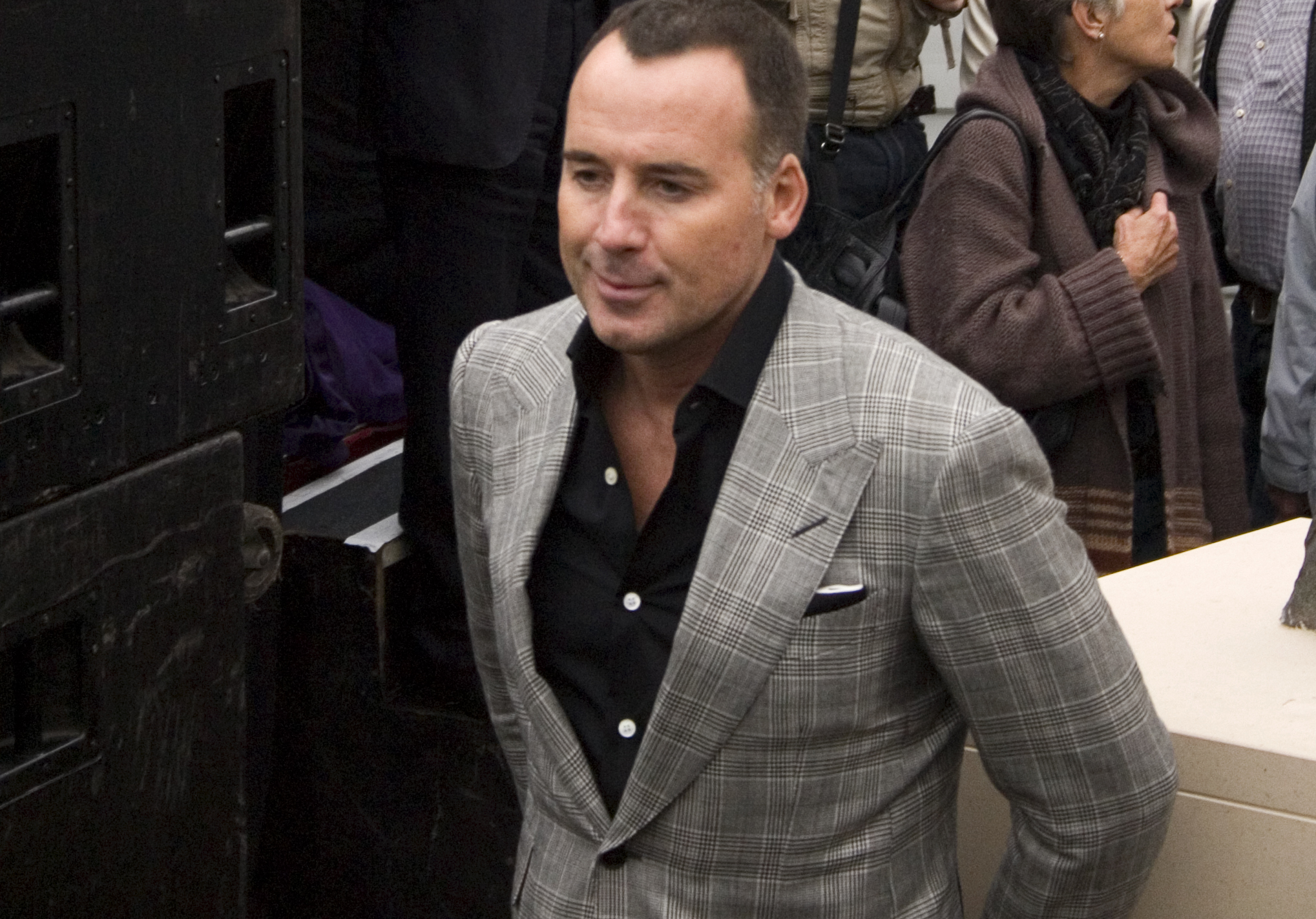 Image taken at the unveiling ceremony for "TAY", the Brighton AIDS Memorial on a very wet afternoon on Friday 9th October 2009 at 2:30p.m. performed by David Furnish at New Steine Square / Gardens, Brighton, East Sussex, England, UK. The sculpture was designed by local artist Romany Mark Bruce. The entwined lovers echo the shape of the AIDS awareness ribbon.